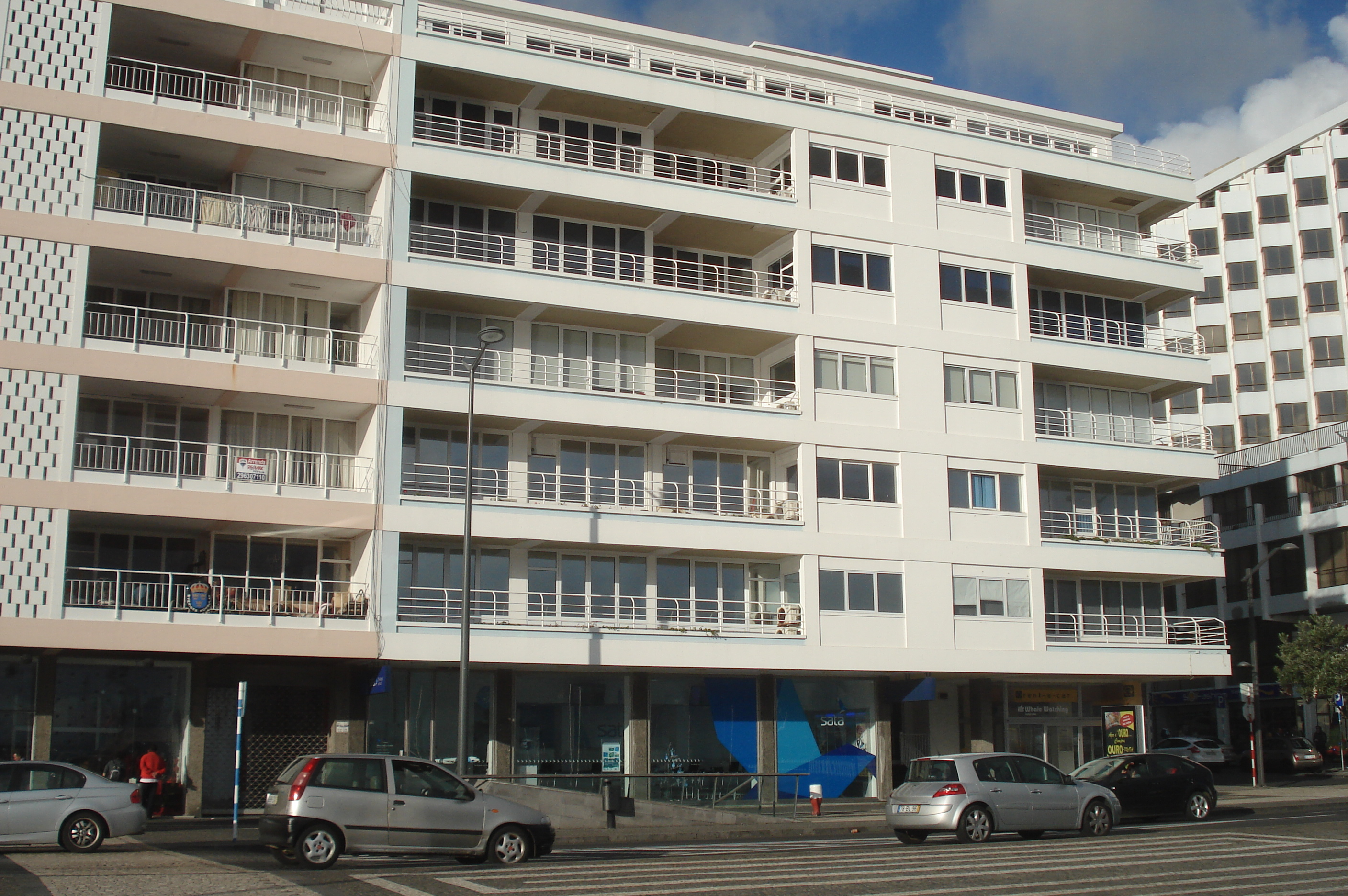 The SATA headquarters, along Avenida Infante D. Henriques, civil parish of São Sebastião, municipality of Ponta Delgada (Azores), Portugal